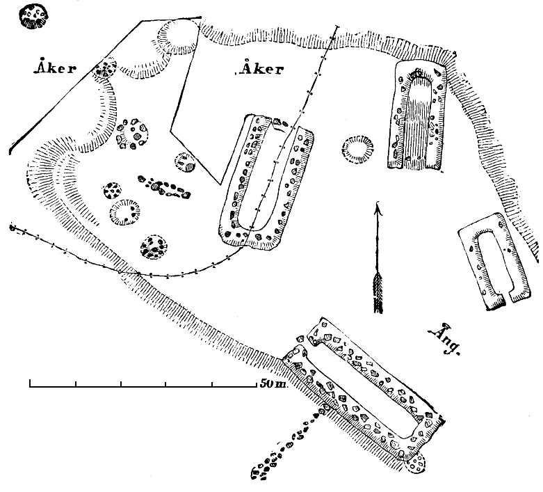 Ruins of a home from the Nordic Iron Age in Sweden